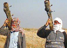 Two insurgents in Iraq with SA-7b and SA-14 MANPADS.